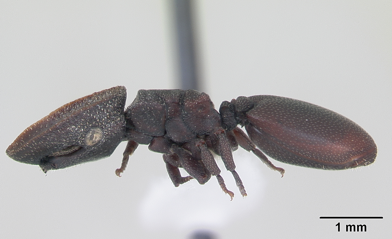 Profile view of ant Cephalotes pallidoides specimen casent0173694.